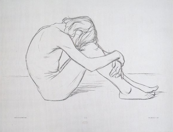 Charles Bargue - Drawing Course Plate III-24 Man seated upon the ground, his head on his knees